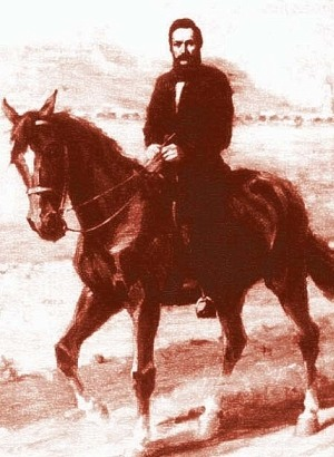 Ľudovít Štúr the leader of the Slovak national revival in the 19th century